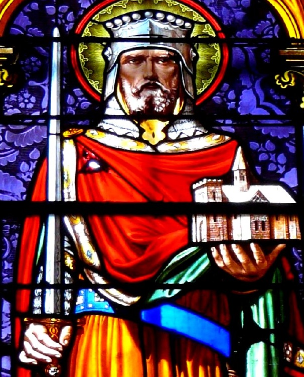 Gerald, count of Aurillac.